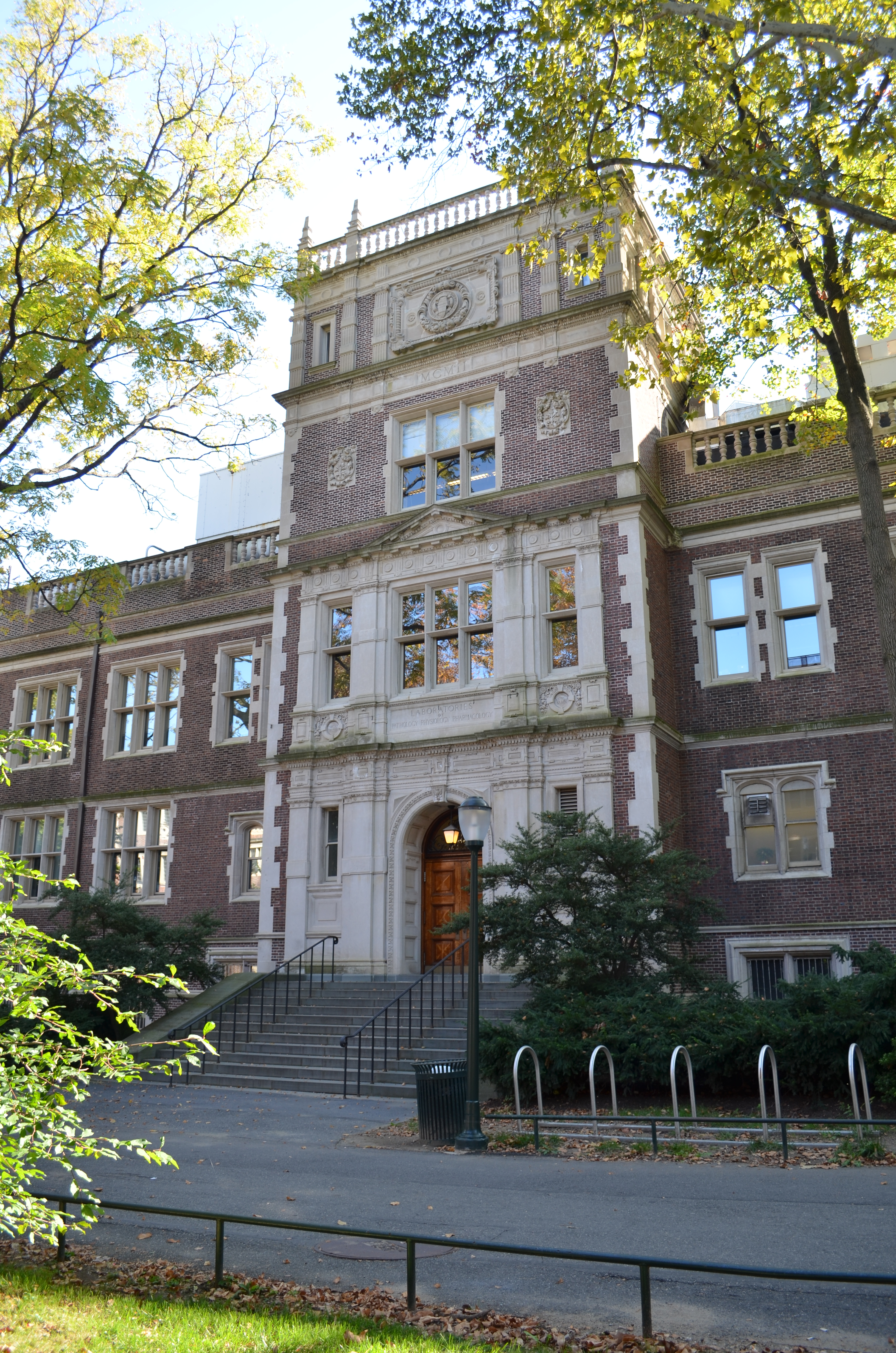 This is a photograph of the entrance to the John Morgan Building of the Perelman School of Medicine at the University of Pennsylvania in Philadelphia, PA.